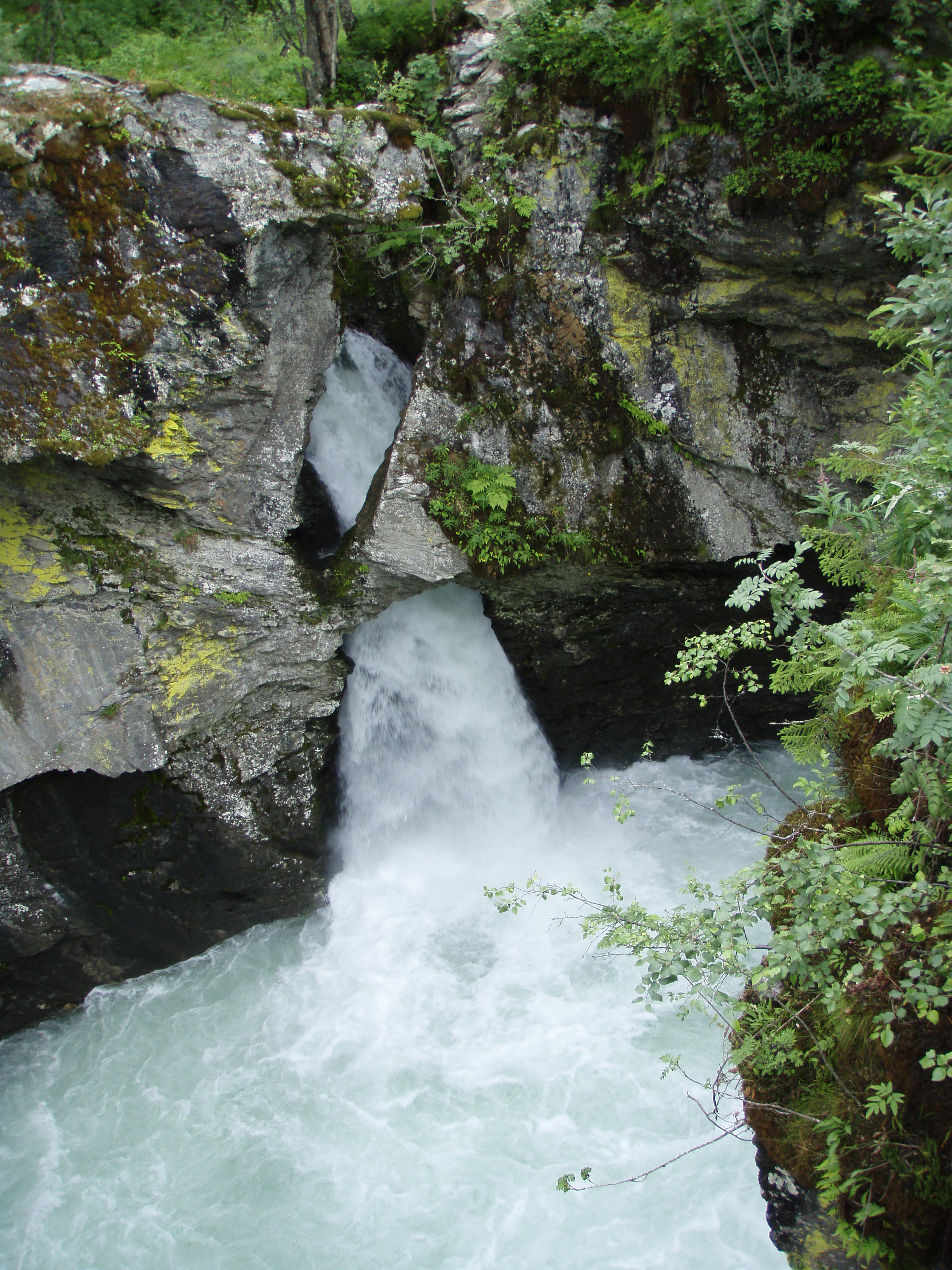 Foaming waters at Gudbrandsjuvet, near Geiranger,Norway.Because of big boulders criss-crossing, water comes fast from unexpected angles